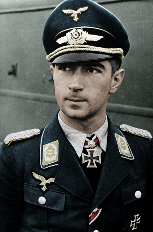 This is a retouched picture, which means that it has been digitally altered from its original version. Modifications: recolored by User:Ruffneck88. Recolored Version of this image. Werner Mölders Photographer Unknown authorArchive description Description provided by the archive when the original description is incomplete or wrong. You can help by reporting errors and typos at Commons:Bundesarchiv/Error reports. Porträt Werner Mölders als Oberstleutnant mit Ritterkreuz des Eisernen Kreuzes mit EichenlaubTitle Werner Mölders Original caption Oberstleutnant [Werner] Mölders, Träger des Ritterkreuzes mit EichenlaubDepicted people Mölders, Werner: Oberst, Ritterkreuz (RK), Luftwaffe, Deutschland (GND 11858300X)Date 27 November 1940date QS:P571,+1940-11-27T00:00:00Z/11Collection German Federal Archives Native nameDas BundesarchivLocationKoblenz (headquarters)Coordinates50° 20′ 32.71″ N, 7° 34′ 21.22″ E Established1946Web page control : Q685753 VIAF: 137346469 ISNI: 0000 0004 0555 2728 LCCN: n92025526 NLA: 36455393 Open Library: OL55798A WorldCat institution QS:P195,Q685753Current location Sammlung von Repro-Negativen (Bild 146)Accession number Bild 146-1971-116-29 Source This image was provided to Wikimedia Commons by the German Federal Archive (Deutsches Bundesarchiv) as part of a cooperation project. The German Federal Archive guarantees an authentic representation only using the originals (negative and/or positive), resp. the digitalization of the originals as provided by the Digital Image Archive. Oberstleutnant [Werner] Mölders, Träger des Ritterkreuzes mit Eichenlaub